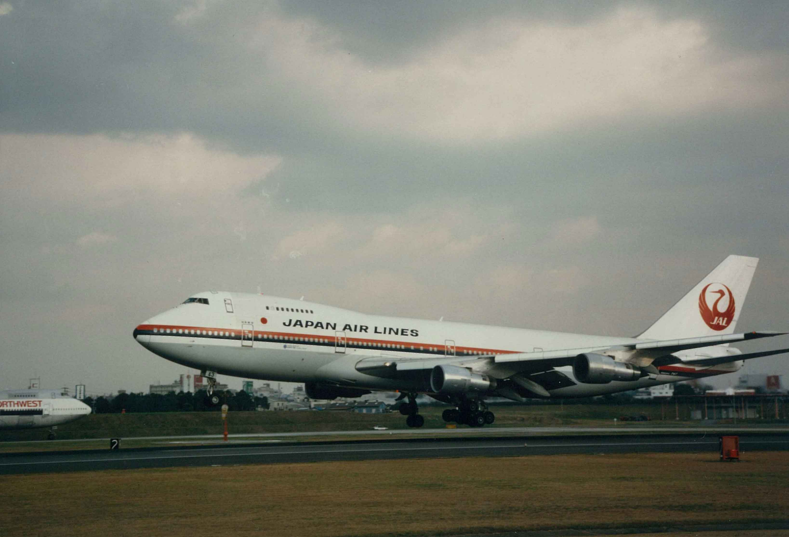 It is JAL which it photographed in Itami, Osaka Airport.